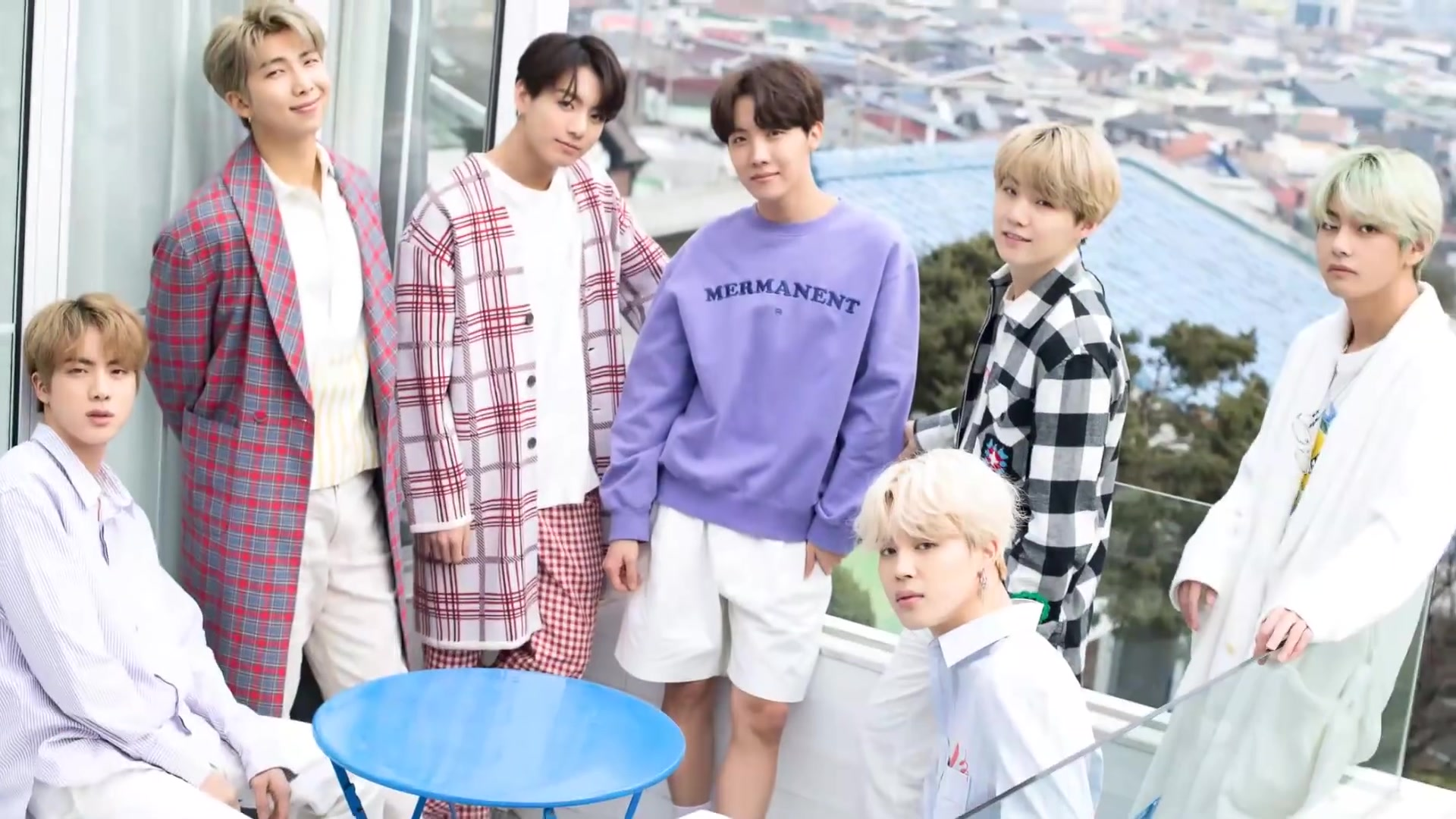 BTS for Dispatch White Day Special, 27 February 2019